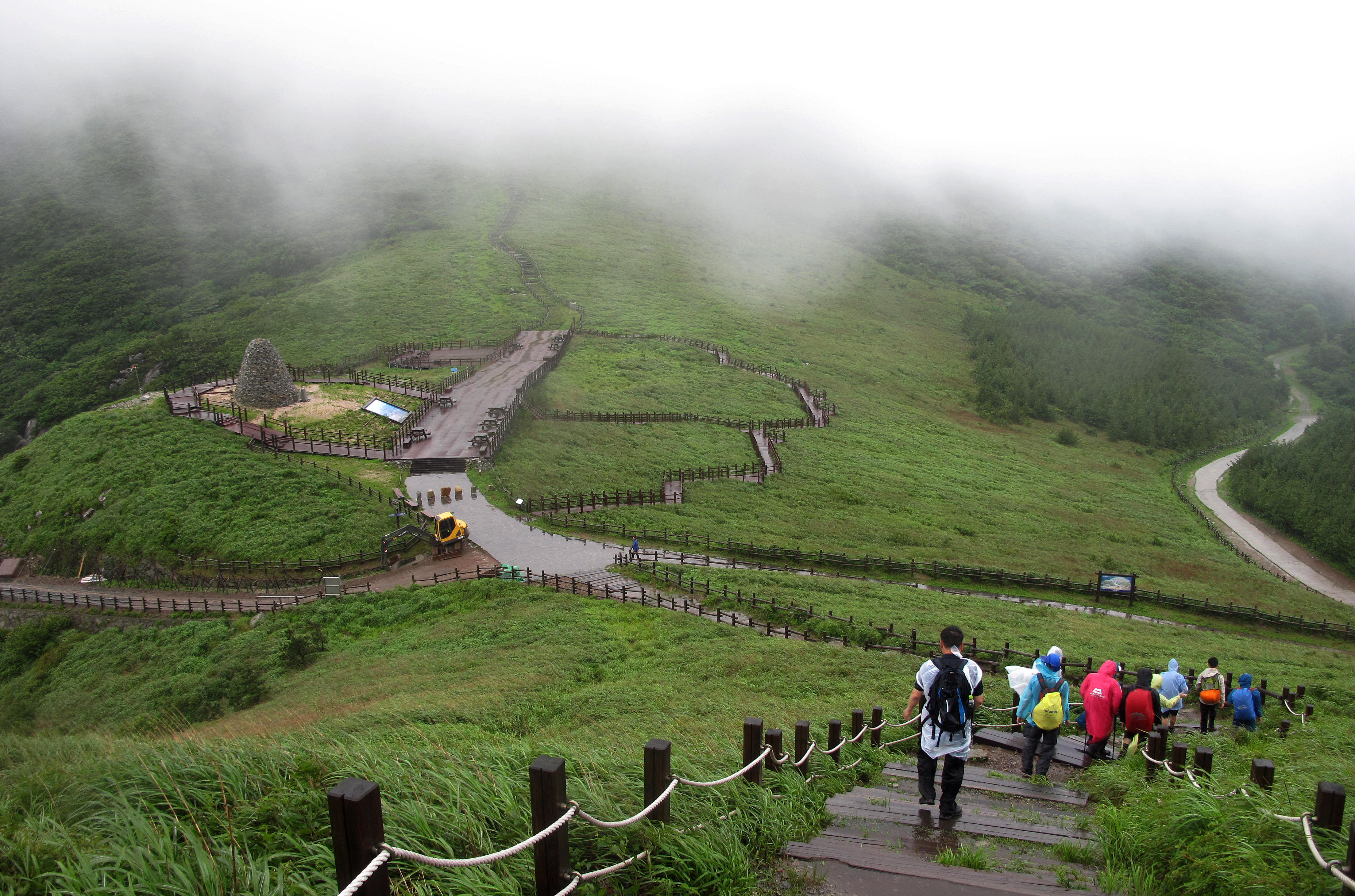 10 best walking trails in Korea Alps Haneul reed trail (Ulju, Ulsan) (Photo by Ministry of Public Administration and Security) KOCIS 행정안전부가 선정한 녹색길 베스트 10 울산 영남알프스 하늘억새길 (울산 울주군) 사진제공 - 행정안전부 문화체육관광부 해외문화홍보원